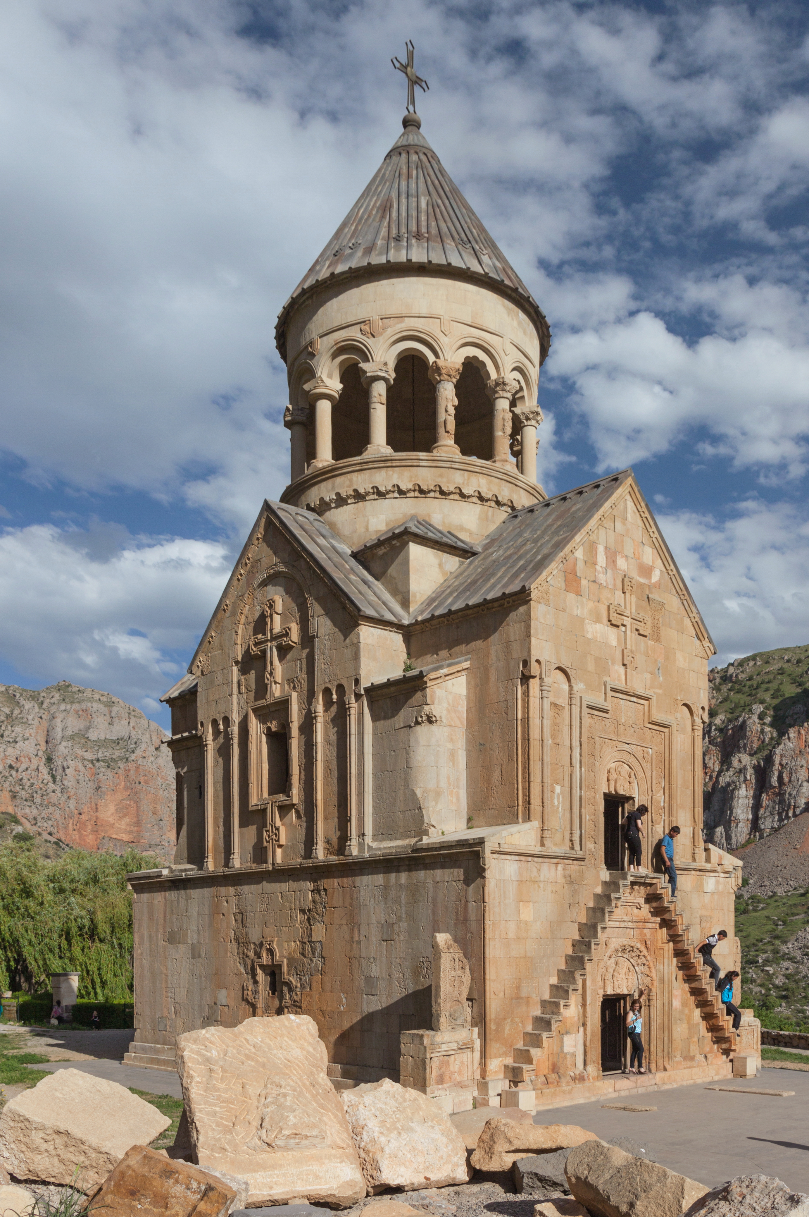 Holy Mother of God Church (Surb Astvatsatsin). Noravank monastery. Gnishik gorge (Noravank Gorge), Vayots Dzor Province, Armenia.